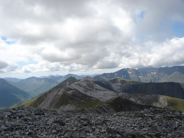 View west along Grey Corries ridge from Stob Choire Claurigh. Twisting ridge mostly above 3000ft Ben Nevis in top right in cloud (again)